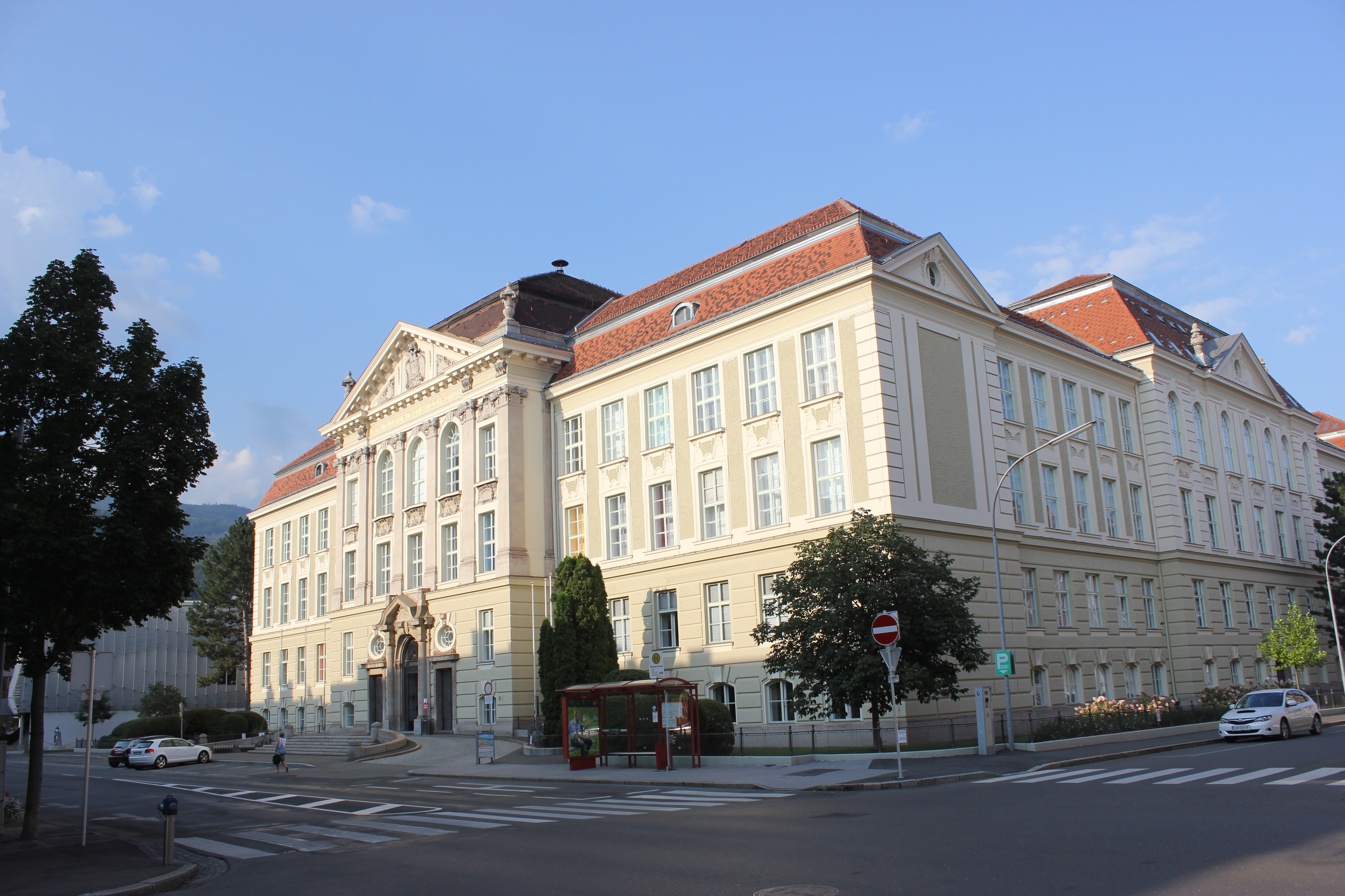 Leoben - Montan University